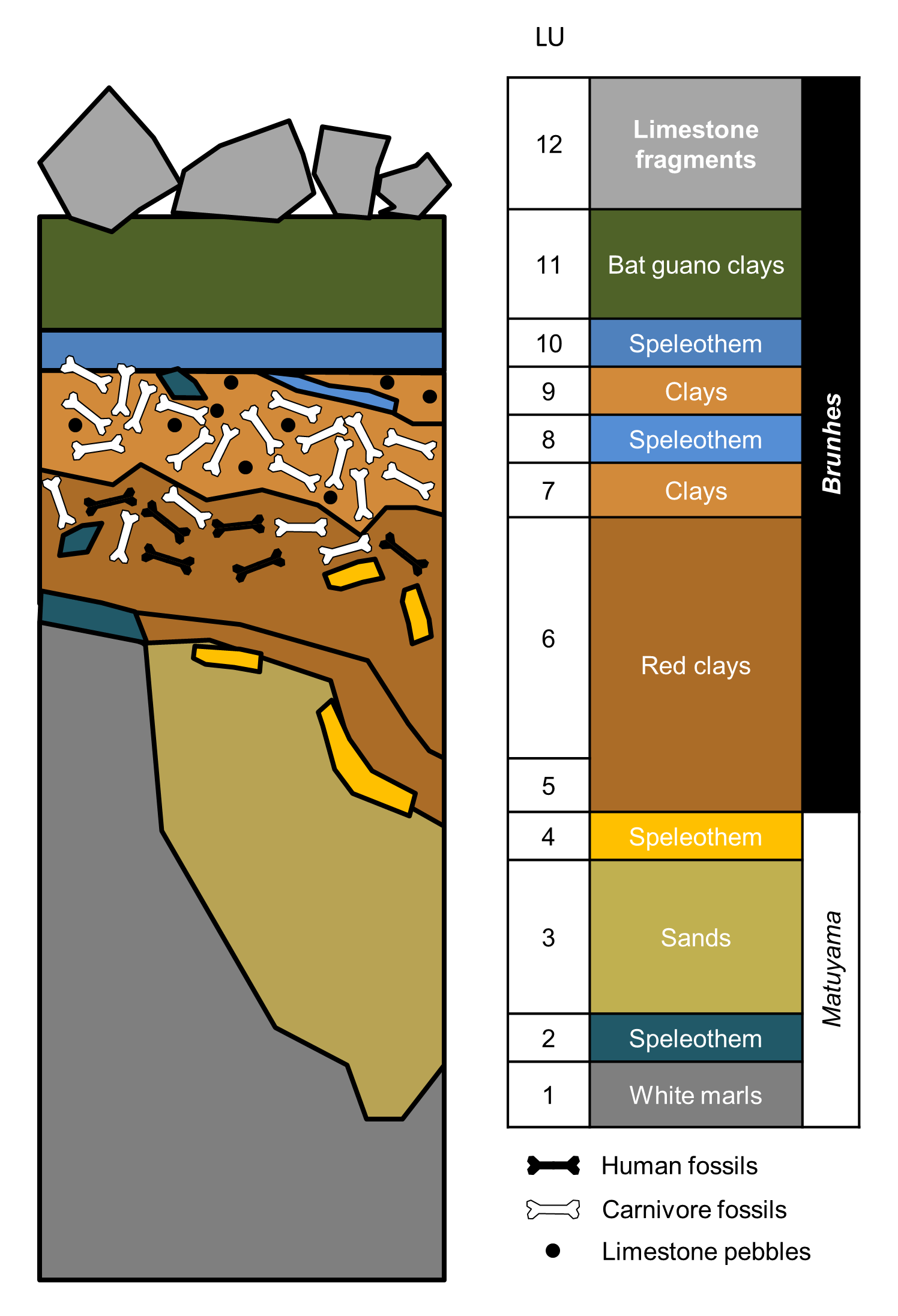 Lithostratigraphic units synthesis at the Sima de los Huesos